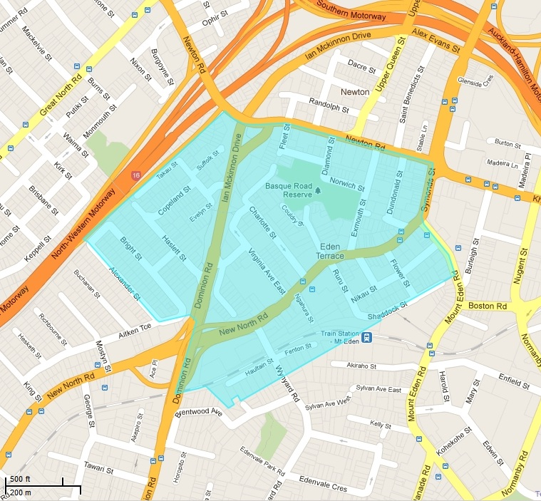 Boundary map of Eden Terrace, Auckland.